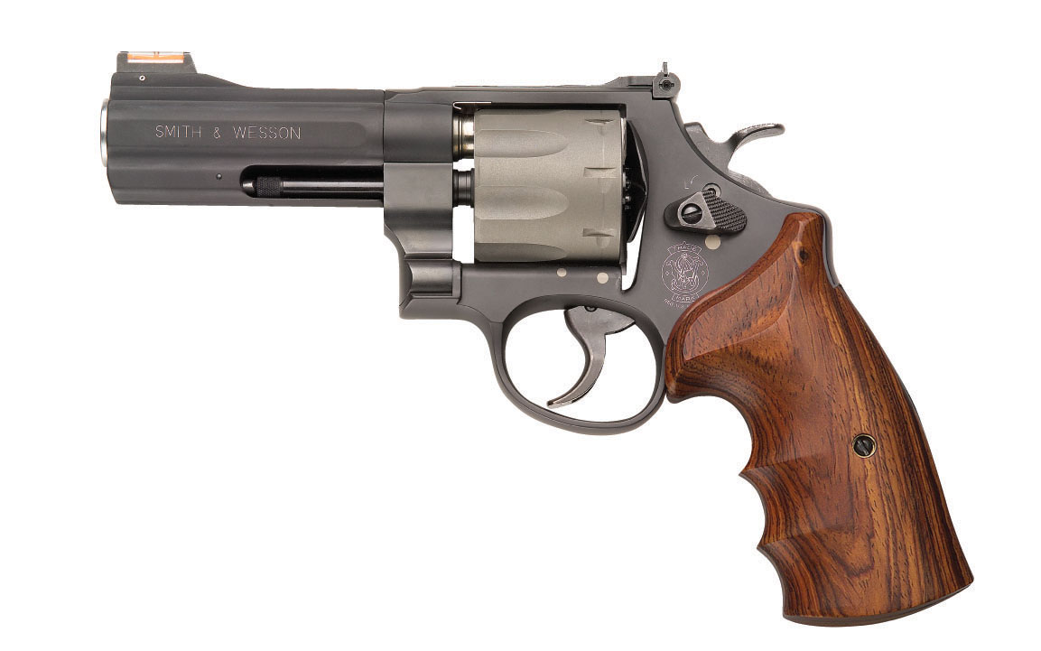 Smith & Wesson Model 327PD